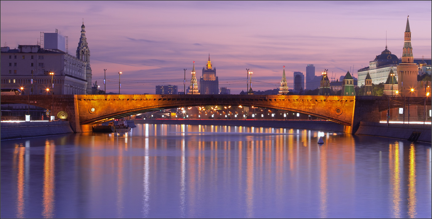 Bolshoy Moscvorecky Bridge, Moscow, Russia